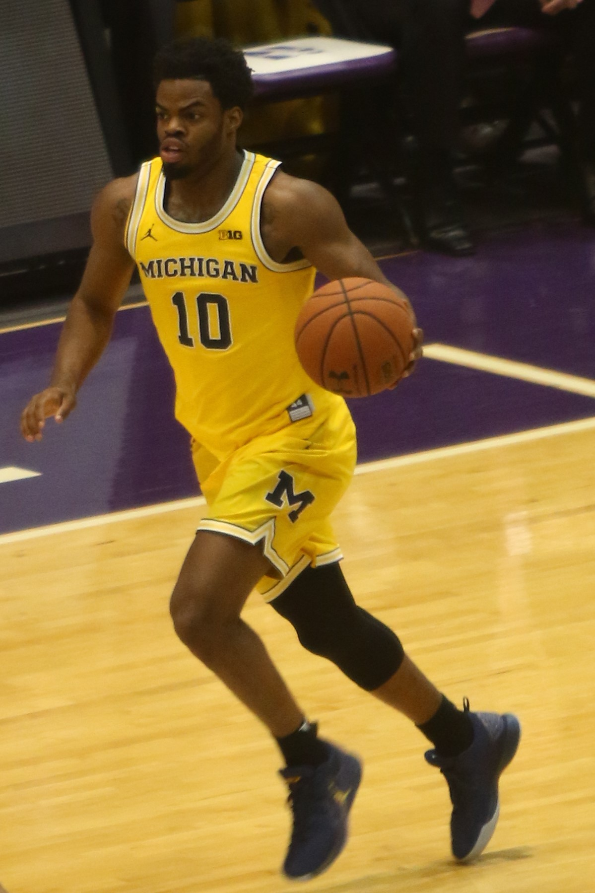 Derrick Walton playing for the w:2016–17 Michigan Wolverines men's basketball team